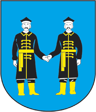 Historical coat of arms, used from 1945 to 2005, of the city Piekary Śląskie, part of the voivodship Silesia in Poland.